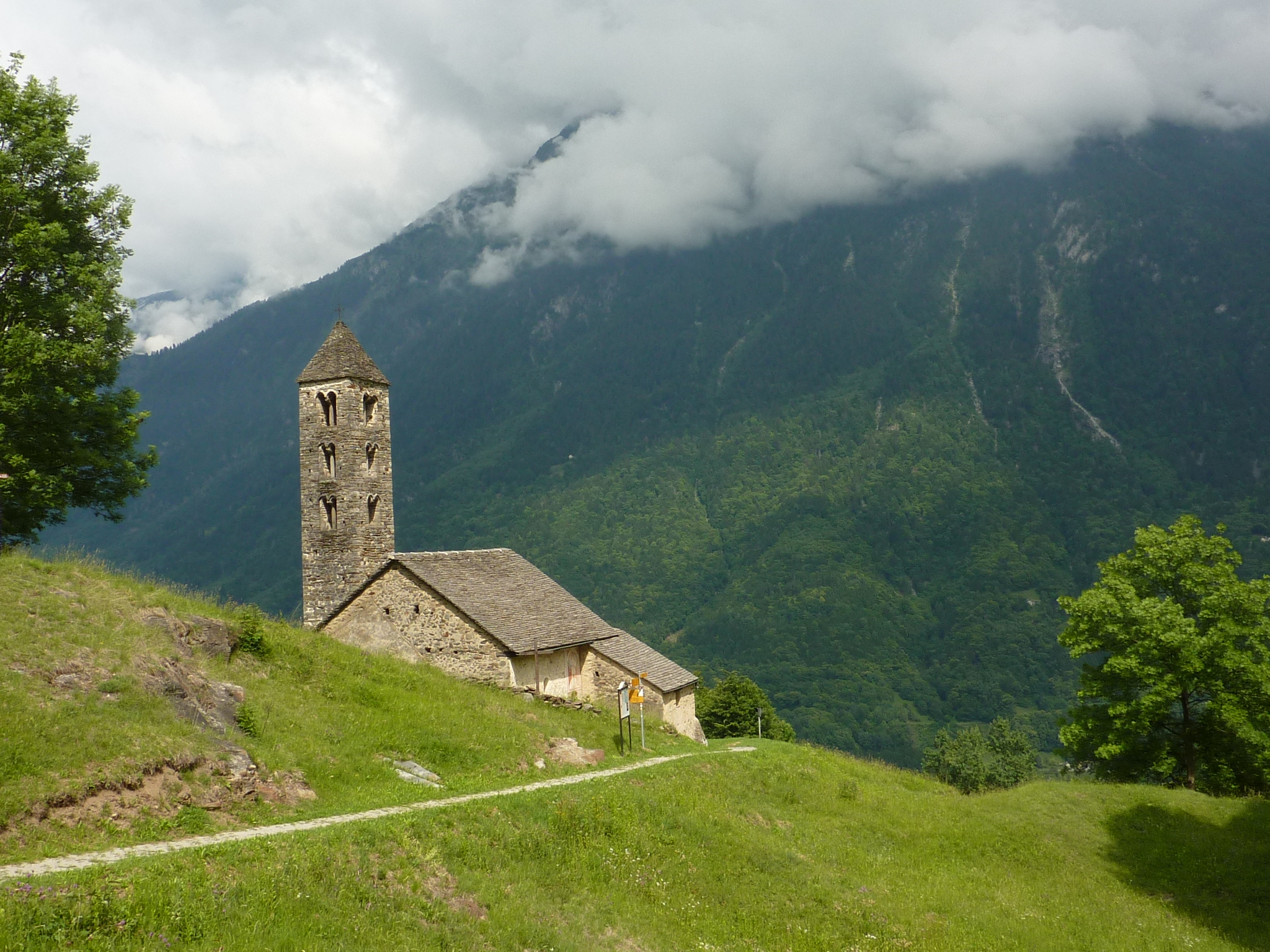 Frontal view of Saint Ambrose in Negrentino